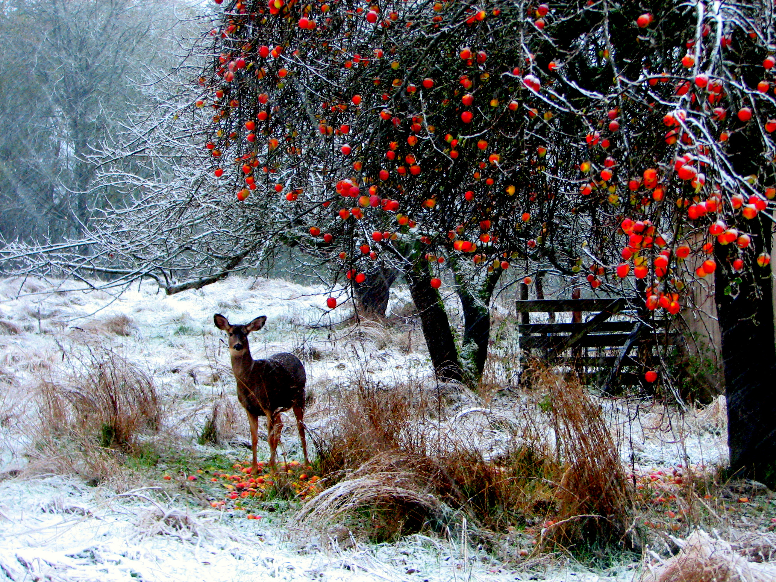 A deer (Odocoileus species) in winter below an apple tree in Kingston, Washington